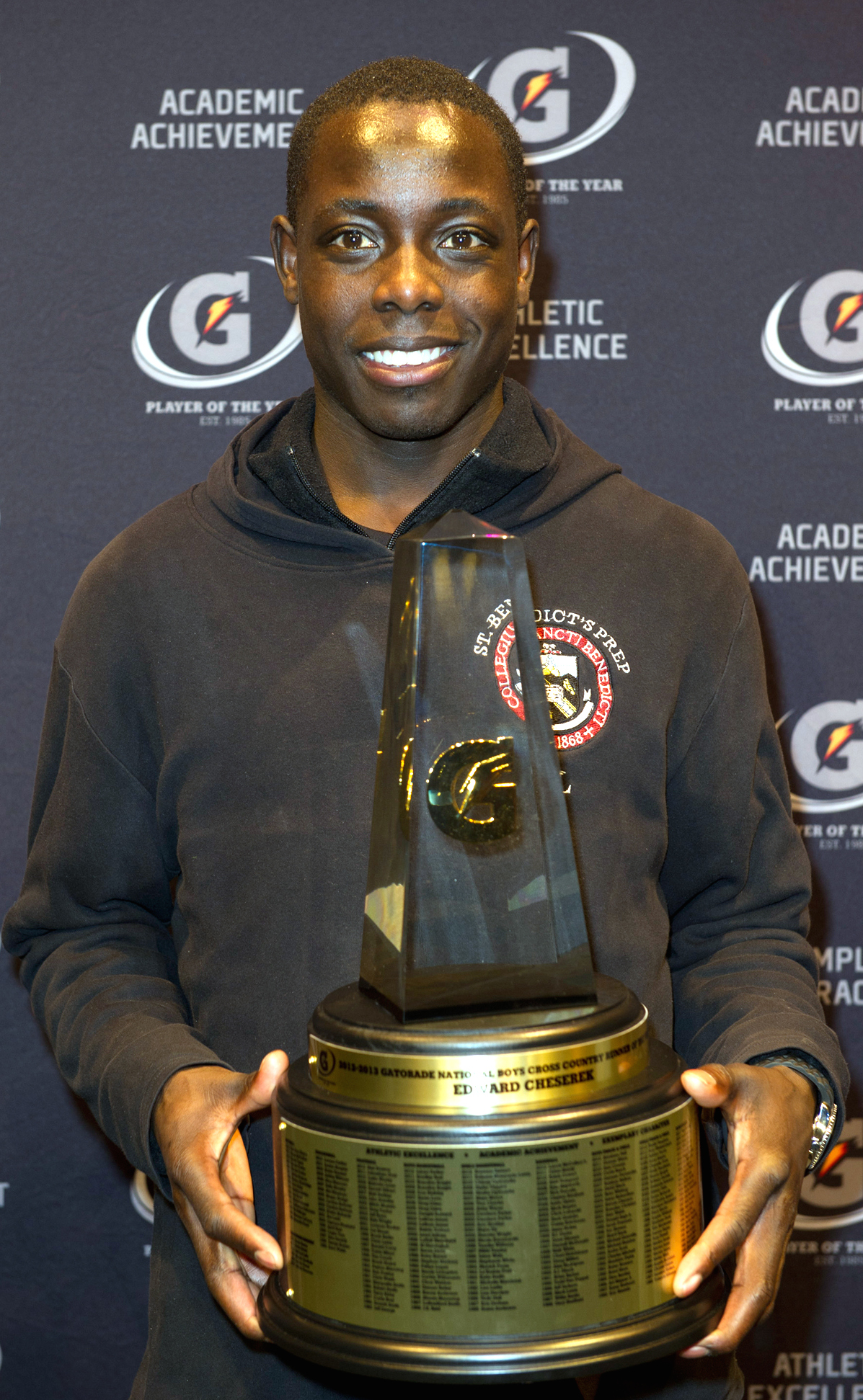 Edward Cheserek with the 2012-2013 Gatorade National X-Country Runner of the Year Award